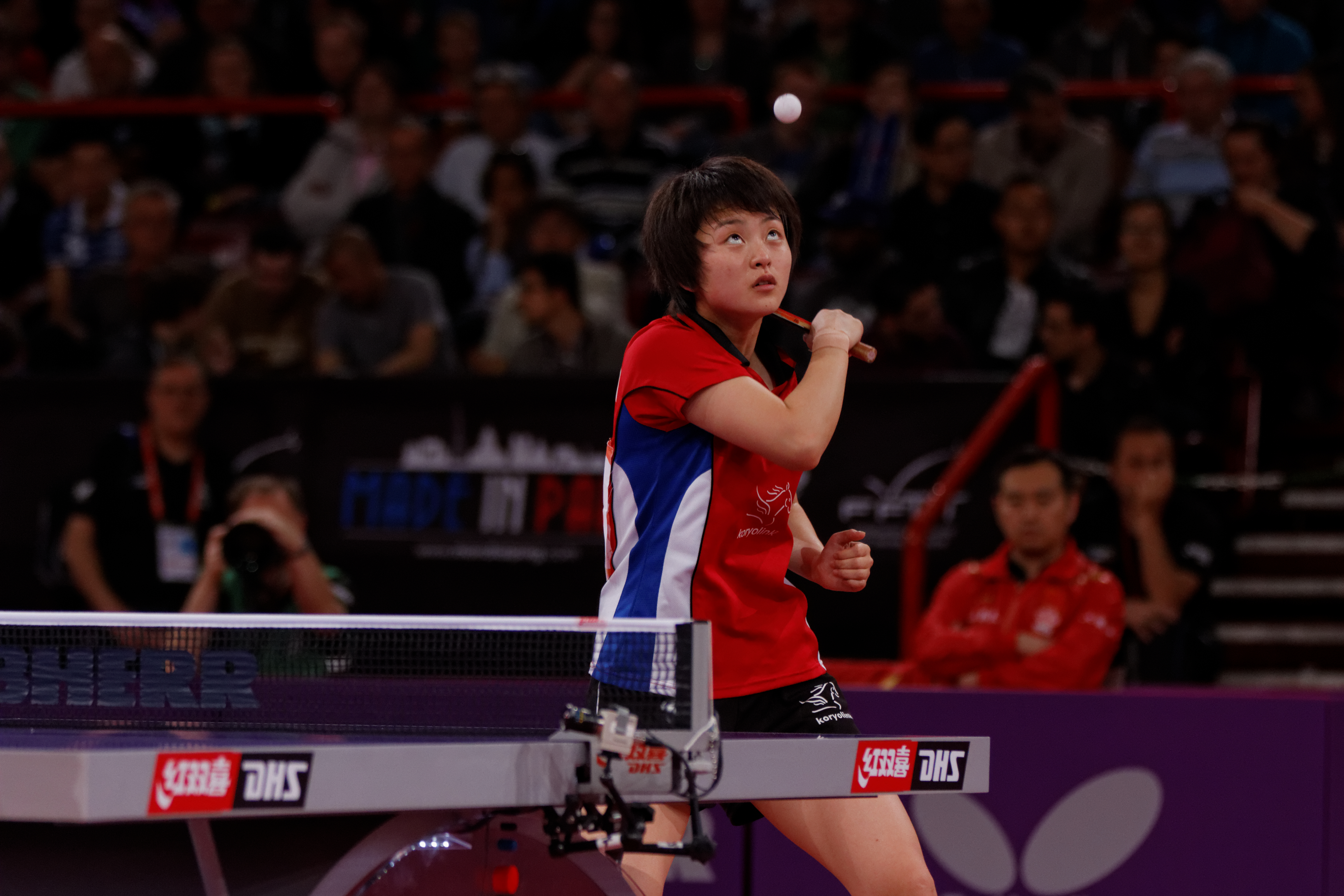 2013 World Table Tennis Championships, Paris. Women's Singles Quarterfinal. Ding Ning vs Ri Myong-Sun.